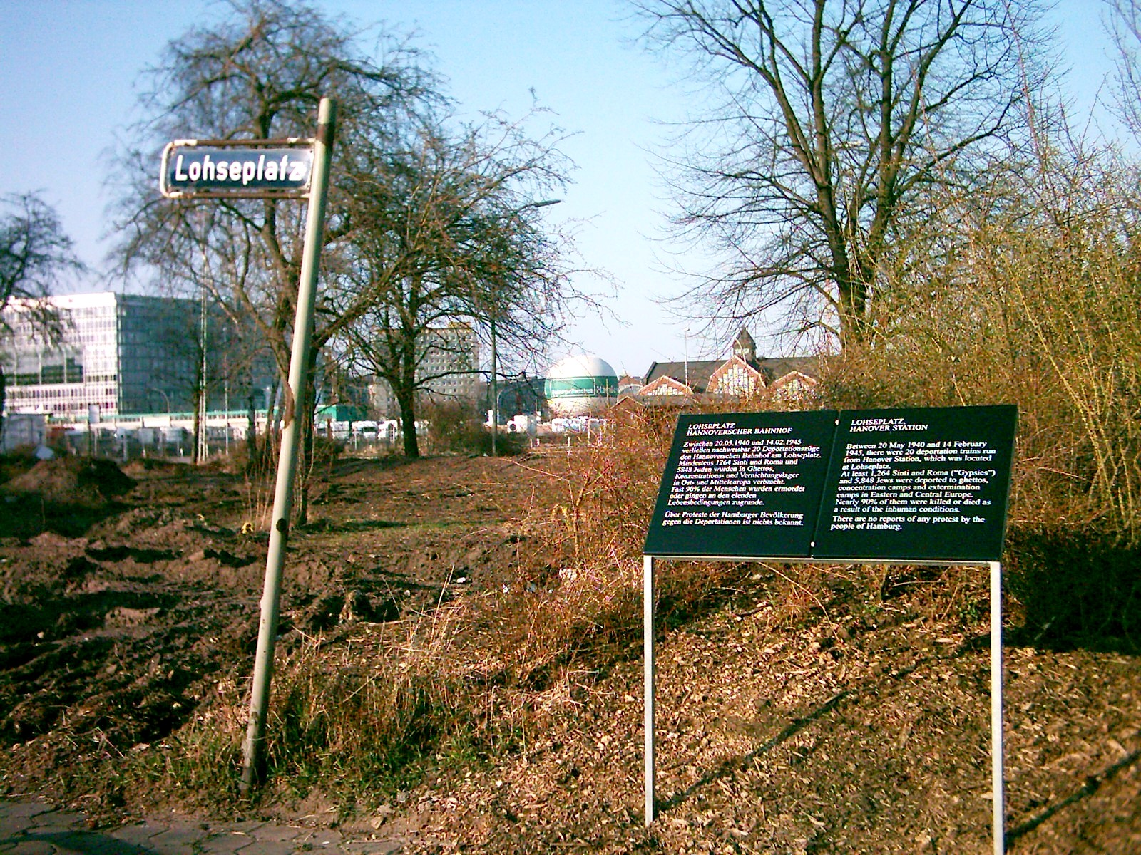 Commemorative plaque of Hannoverscher Bahnhof, Hamburg, Germany.